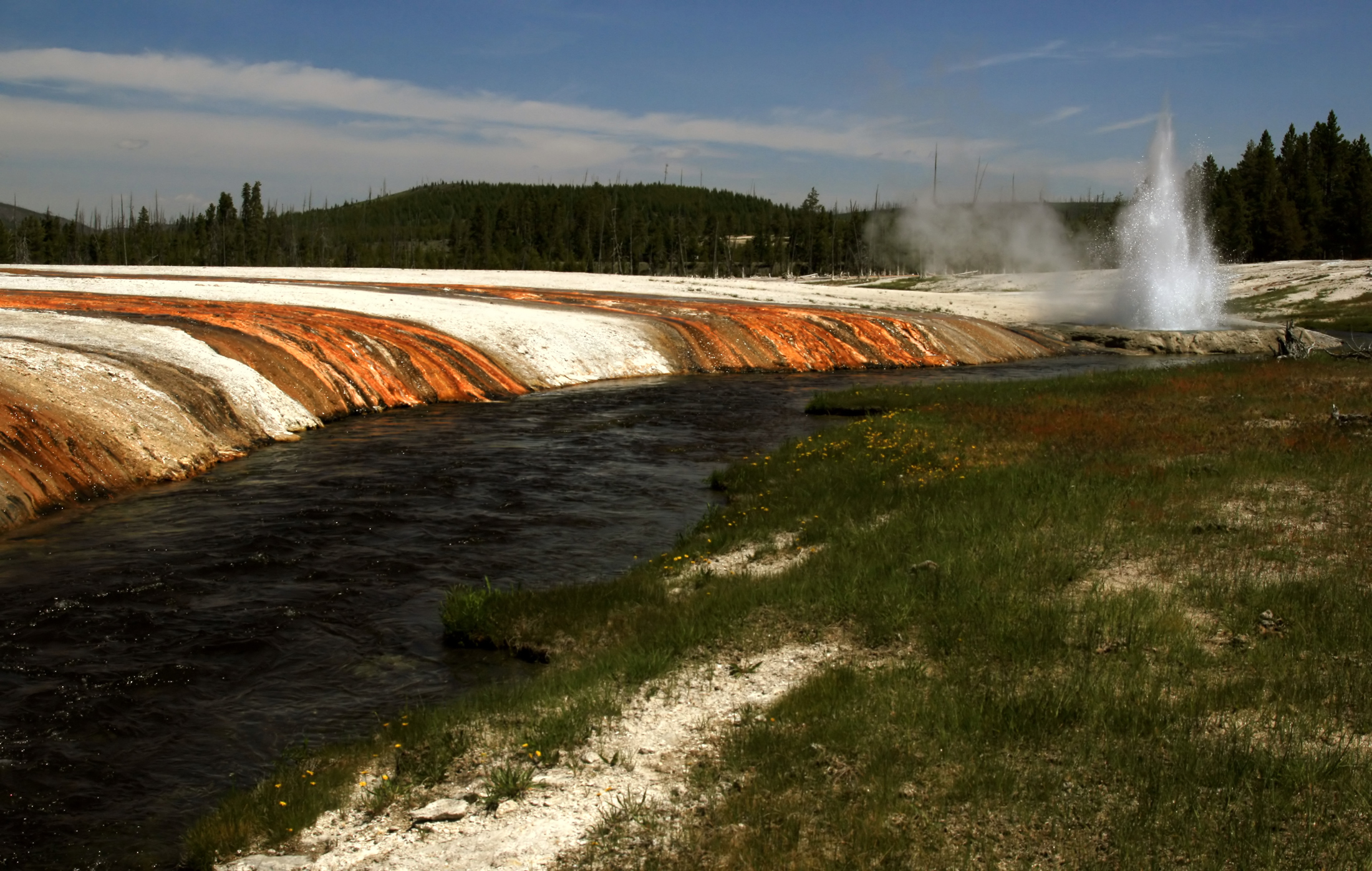 Cliff Geyser erupting in Yellowstone National Park